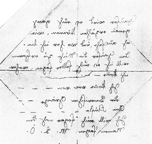 Penciled note in mirror writing by Kaspar Hauser. Translation: Hauser will be able to tell you quite precisely how I look and from where I am. To save Hauser the effort, I want to tell you myself from where I come _ _ . I come from from _ _ _ the Bavarian border _ _ On the river _ _ _ _ _ I even want to tell you the name: M. L. Ö.